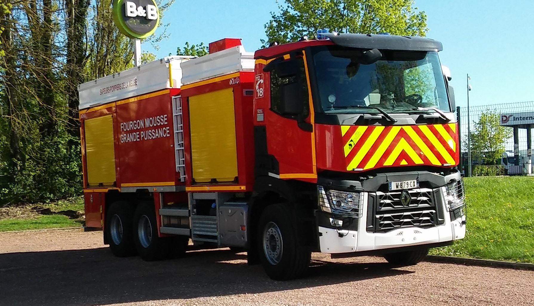 Renault C-Truck